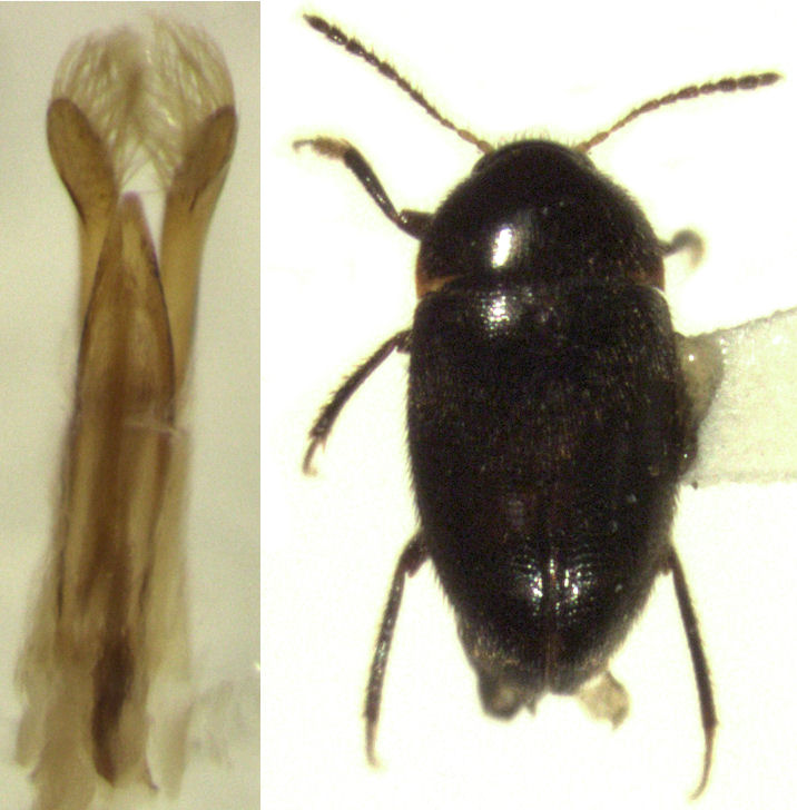 adult male Agyrtodes hunuensis, with dissected out aedeagus. New Zealand, QEII block, litter QI01, 22 Mar 2011